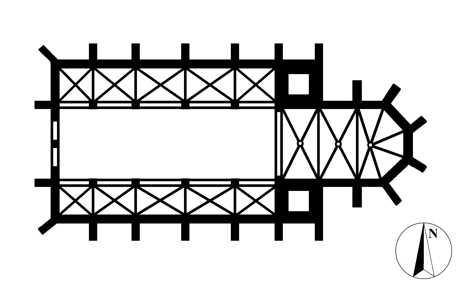 Ground plan (1280) of the the Church Kilianskirche of Heilbronn